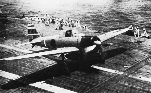 A Japanese Mitsubishi A6M2 Model 21 ("Zero") launches from the carrier Shōkaku during the Battle of the Santa Cruz Islands on 26 October 1942, while deck crewmen cheer on the pilot, Lieutenant Hideki Shingō, the Fighter Group leader. The three horizontal stripes on the tail indicate that the aircraft is flown by hikōtaichō. The single vertical white stripe around the rear end of fuselage is Shōkaku identifier.